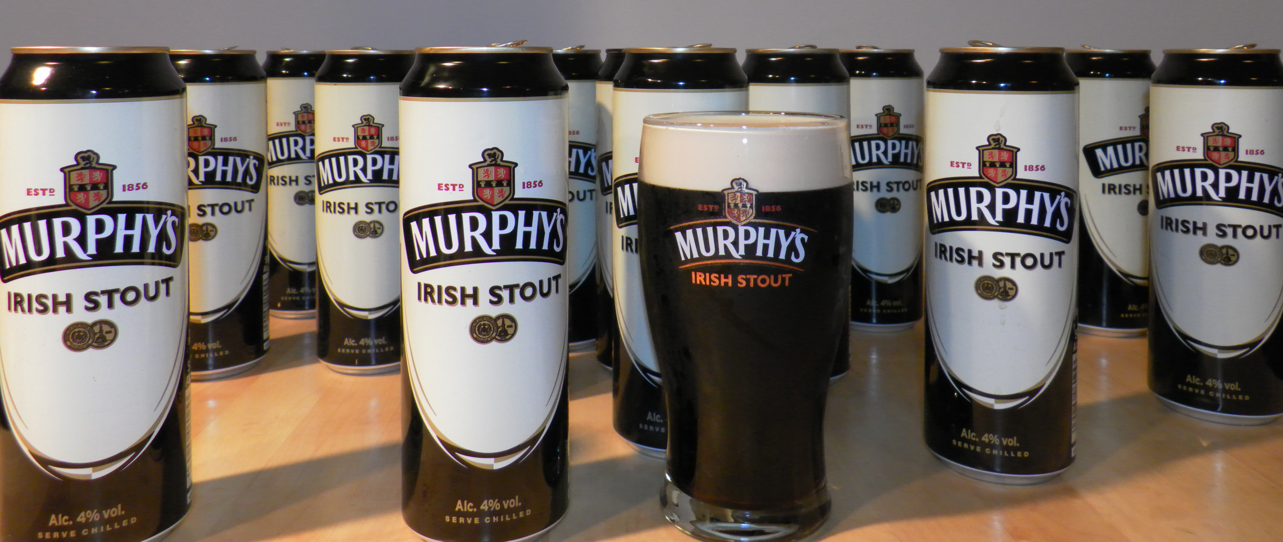 Murphy's Irish Stout